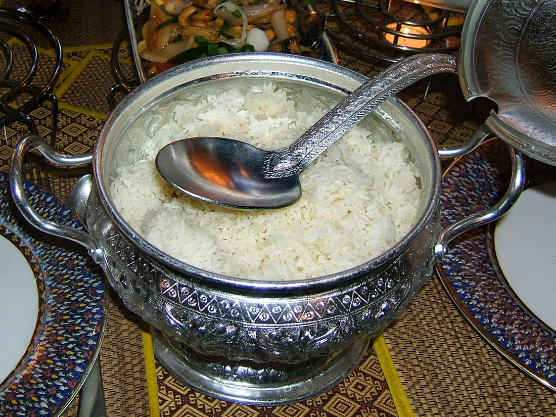 rice serving bowl in a Thai restaurant in Stuttgart, Germany